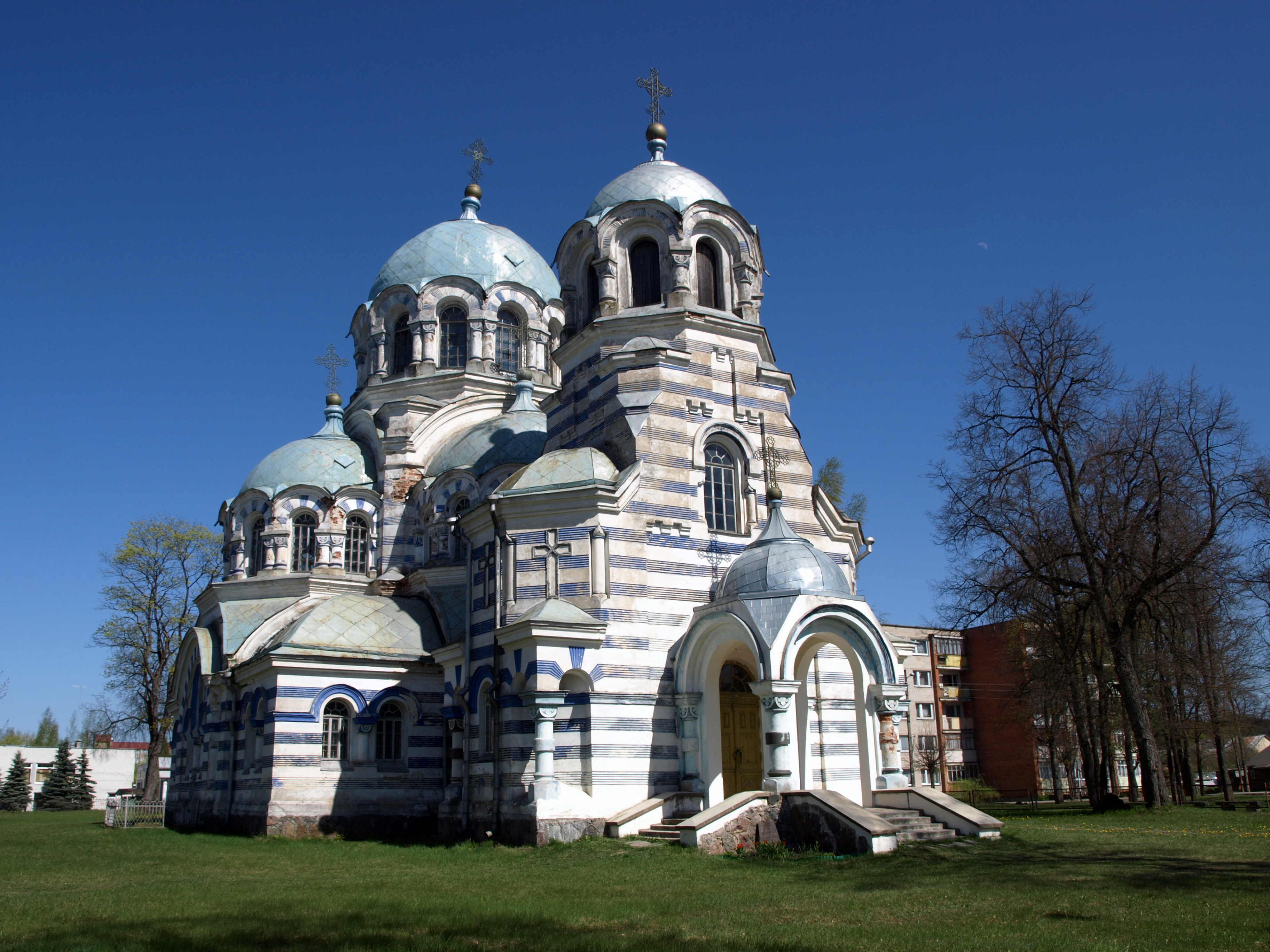 Švenčionys Orthodox church, Švenčionys district, Lithuania